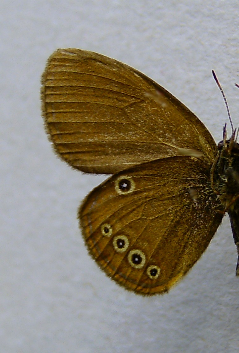 Coenonympha oedippus.backside male